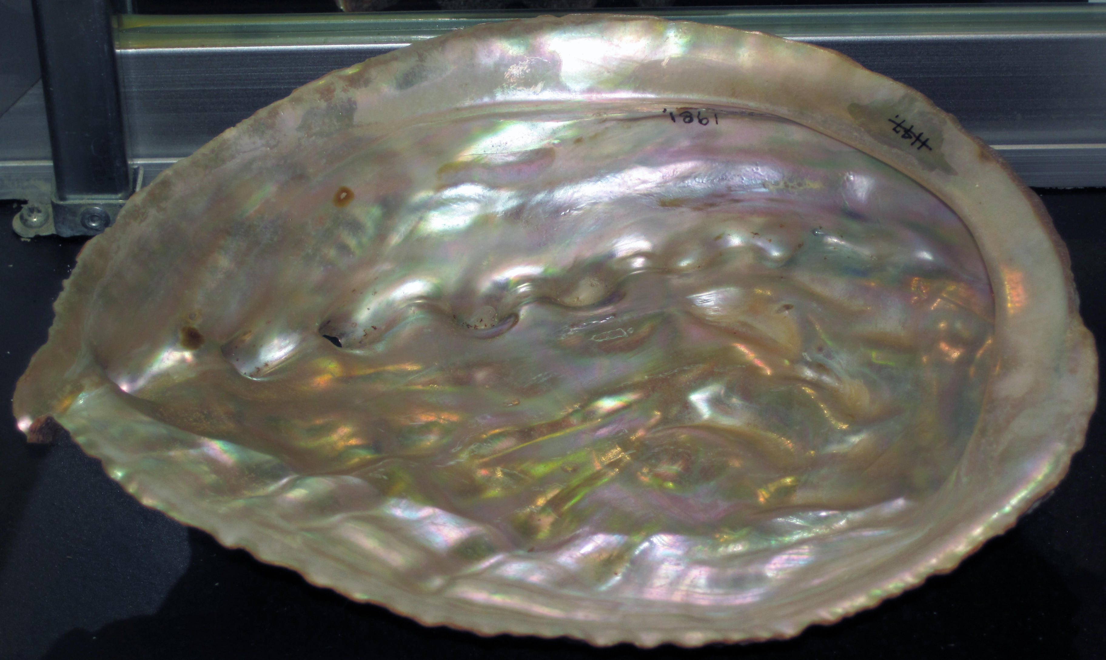 Haliotis gigantea Gmelin, 1791 - interior surface of a giant abalone from Japan (BMSM 1981, Bailey-Matthews Shell Museum, Sanibel Island, Florida, USA). The gastropods (snails & slugs) are a group of molluscs that occupy marine, freshwater, and terrestrial environments. Most gastropods have a calcareous external shell (the snails). Some lack a shell completely, or have reduced internal shells (the slugs & sea slugs & pteropods). Most members of the Gastropoda are marine. Most marine snails are herbivores (algae grazers) or predators/carnivores. The abalones are an odd group of gastropods that have a coiled, cap-shaped, aragonite shell with a curvilinear set of excurrent respiratory holes. Interior shell surfaces have intensely iridescent nacreous aragonite ("mother of pearl"). Abalones are hard substrate algae grazers. From museum signage [typos and mis-spellings corrected]: "Abalones are gastropod molluscs that typically have a widely open shell with holes. The holes serve to expel water after it circulates through the animal during breathing. Some abalones have very elegant shapes and striking colors and their beauty is boosted by the presence of a colorful layer of mother-of-pearl lining the interior of the shell." "There are about 75 species of abalone. These species live on submerged rocks along different continents and islands, usually in cold water areas The West Coast of the U.S. is rich in abalone species. Abalones attach themselves to the rocks using a powerful shell muscle. They are herbivores, grazing on seaweed, with help from a set of specialized teeth called a radula." Classification: Animalia, Mollusca, Gastropoda, Haliotidae Locality: Tosa Bay, southern Shikoku Island, southern Japan More info. at: and